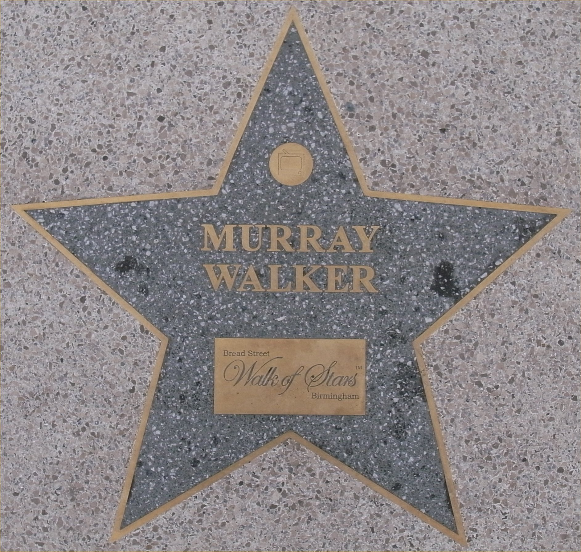 Star for Murray Walker on the Walk of Stars on Broad Street, Birmingham, England. Set in the pavement in June 2008.